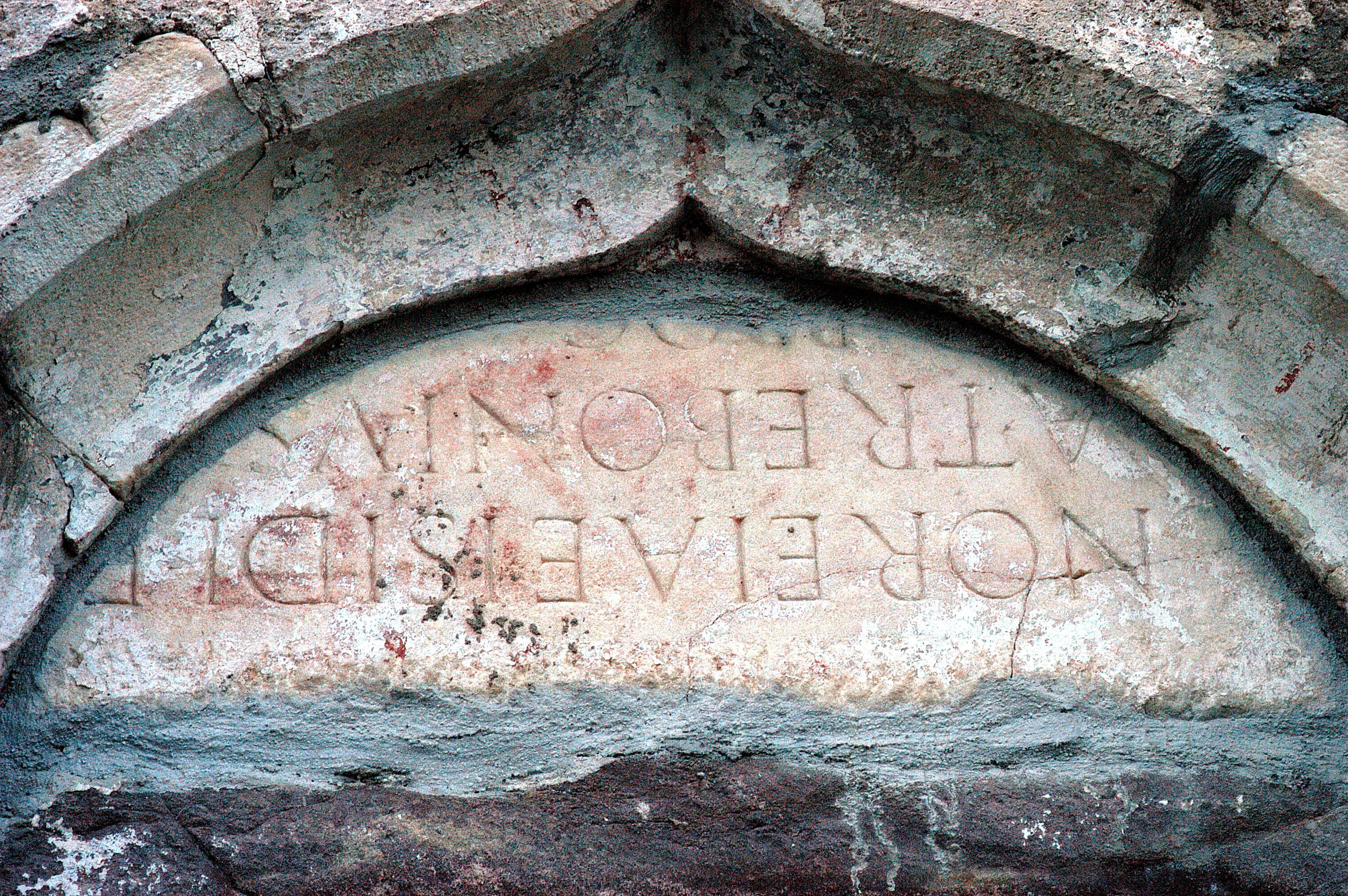 NOREIA consecration stone at the portal's overdoor of the church hulk on top of Mount Ulrich in Wölfnitz, statutary city Klagenfurt, Carinthia, Austria, EU